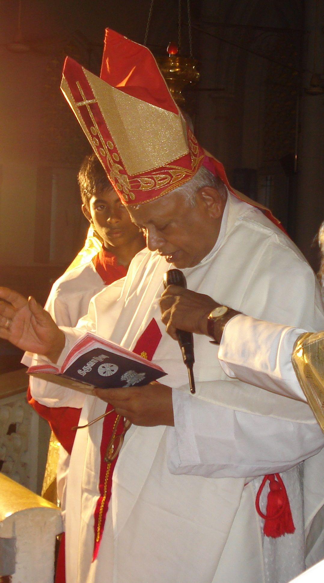 Michael Augustine in episcopal vestments during Mass